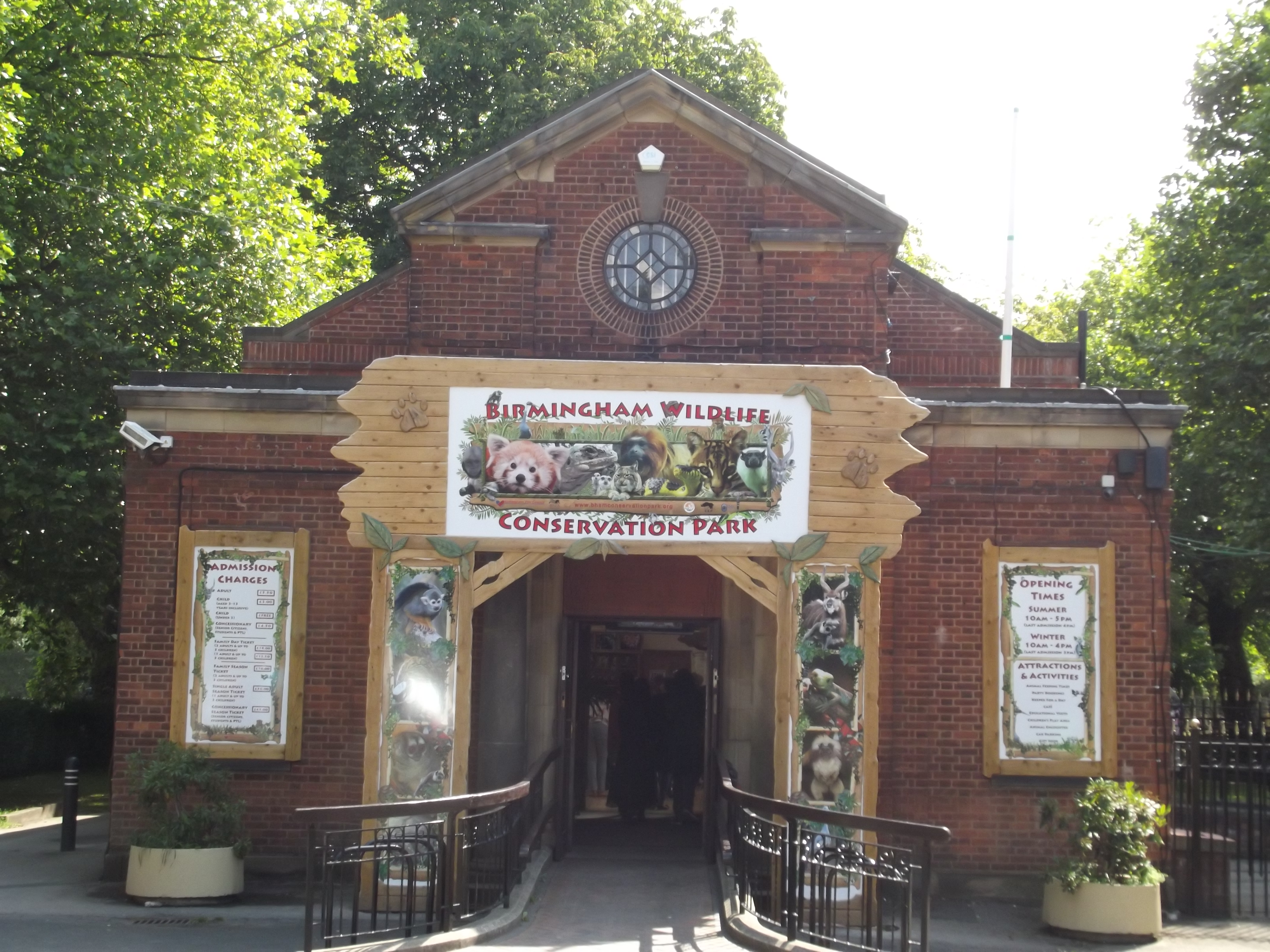 Birmingham Wildlife Conservation Park - formerly the Birmingham Nature Centre. Pershore Road, Edgbaston near Cannon Hill Park.